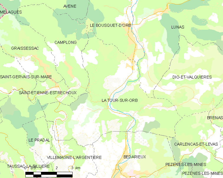 Map commune FR insee code 34312.png - La Tour-sur-Orb